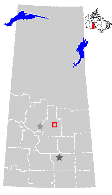 Location of Humboldt, Saskatchewan